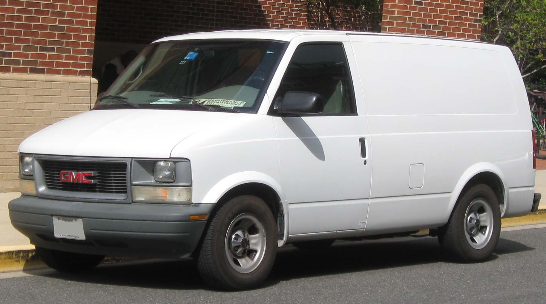 GMC Safari photographed in College Park, Maryland, USA.